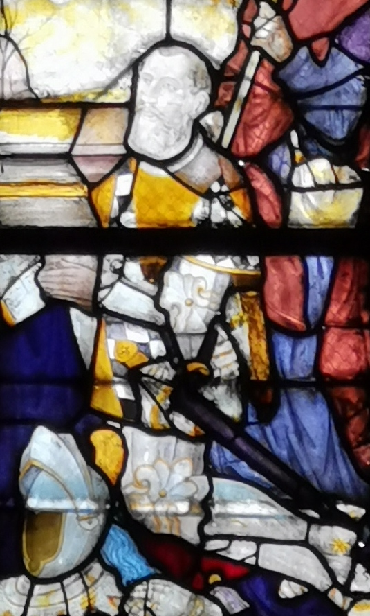 Jacob Adornes van Ronsele on a window in the Jerusalem chapel in Bruges